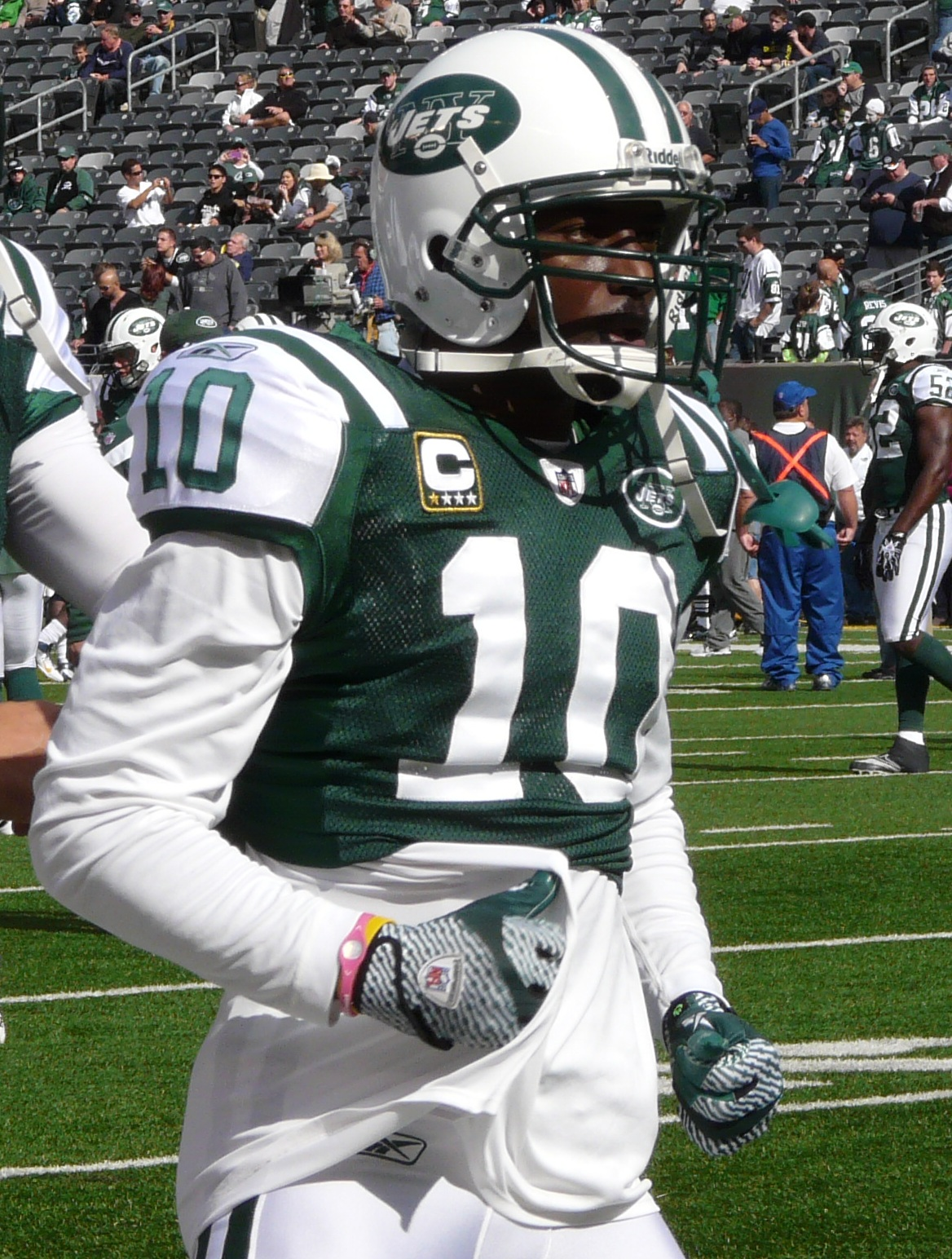 New York Jets Quarterback Mark Sanchez and Wide Receiver Santonio Holmes